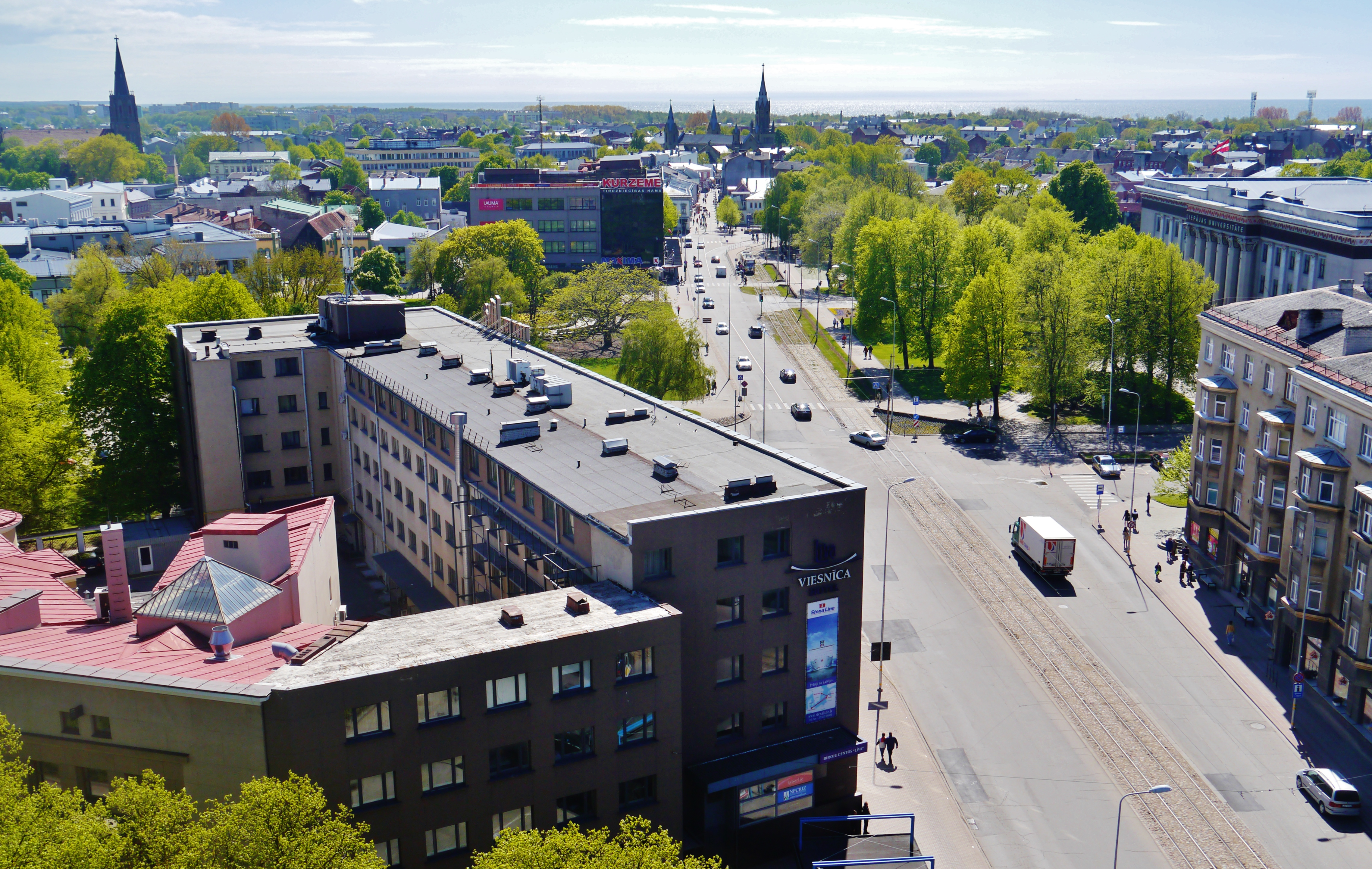 View from the Protestant Cathedral of the Holy Trinity, Liepaja, Latvia